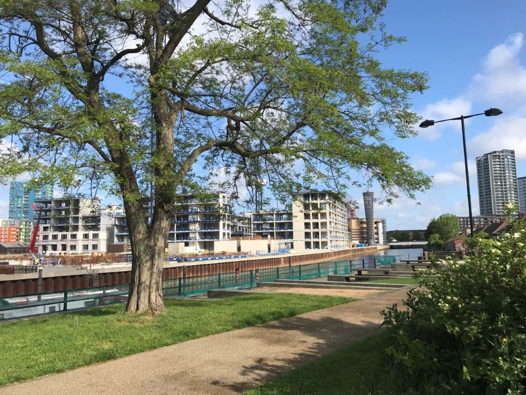 Canal towpath overlooking Three Mills Wall River with a tree in the foreground